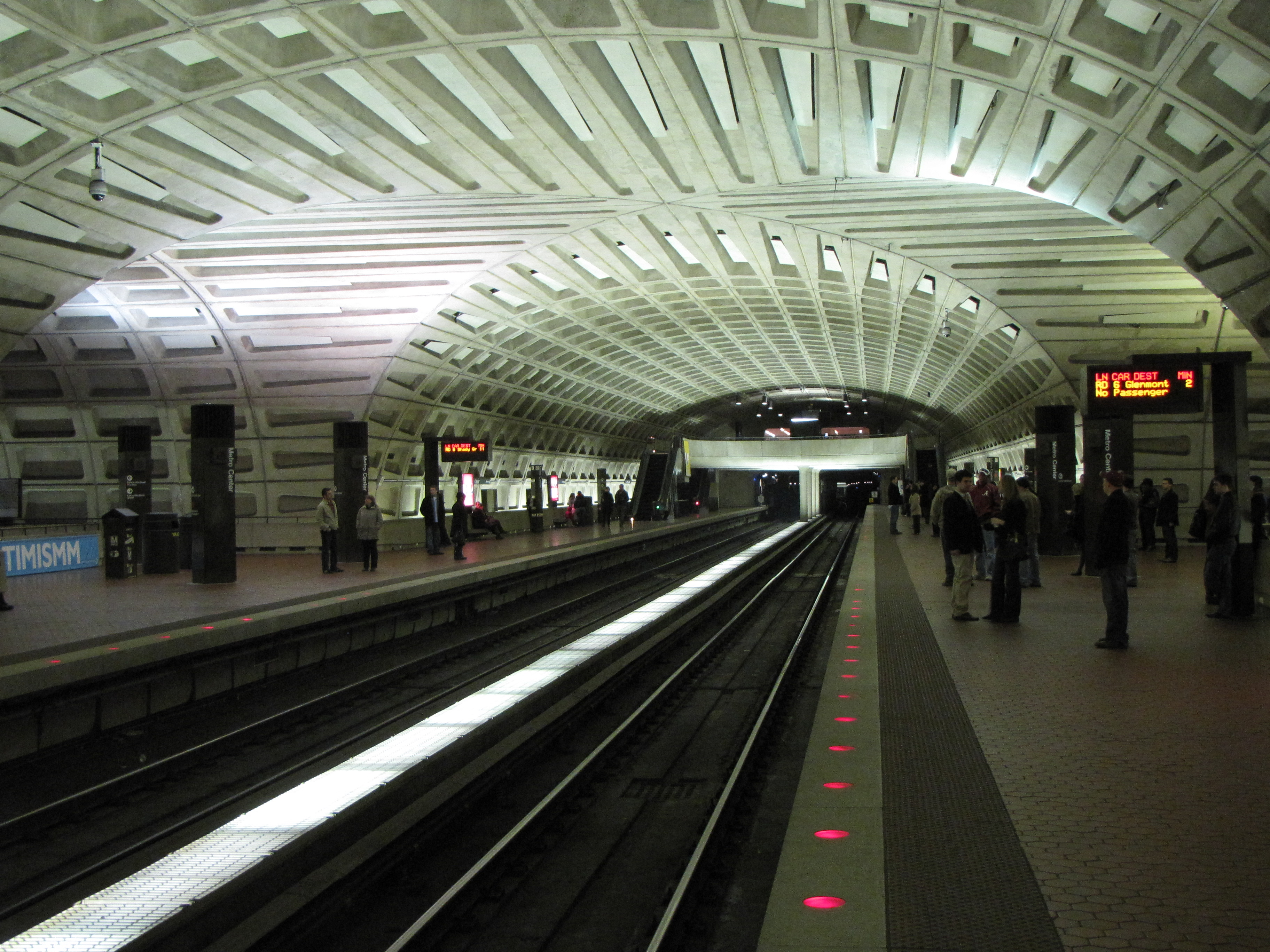 Intersection of ceiling vaults at Metro Center, a Metro station in Washington DC.